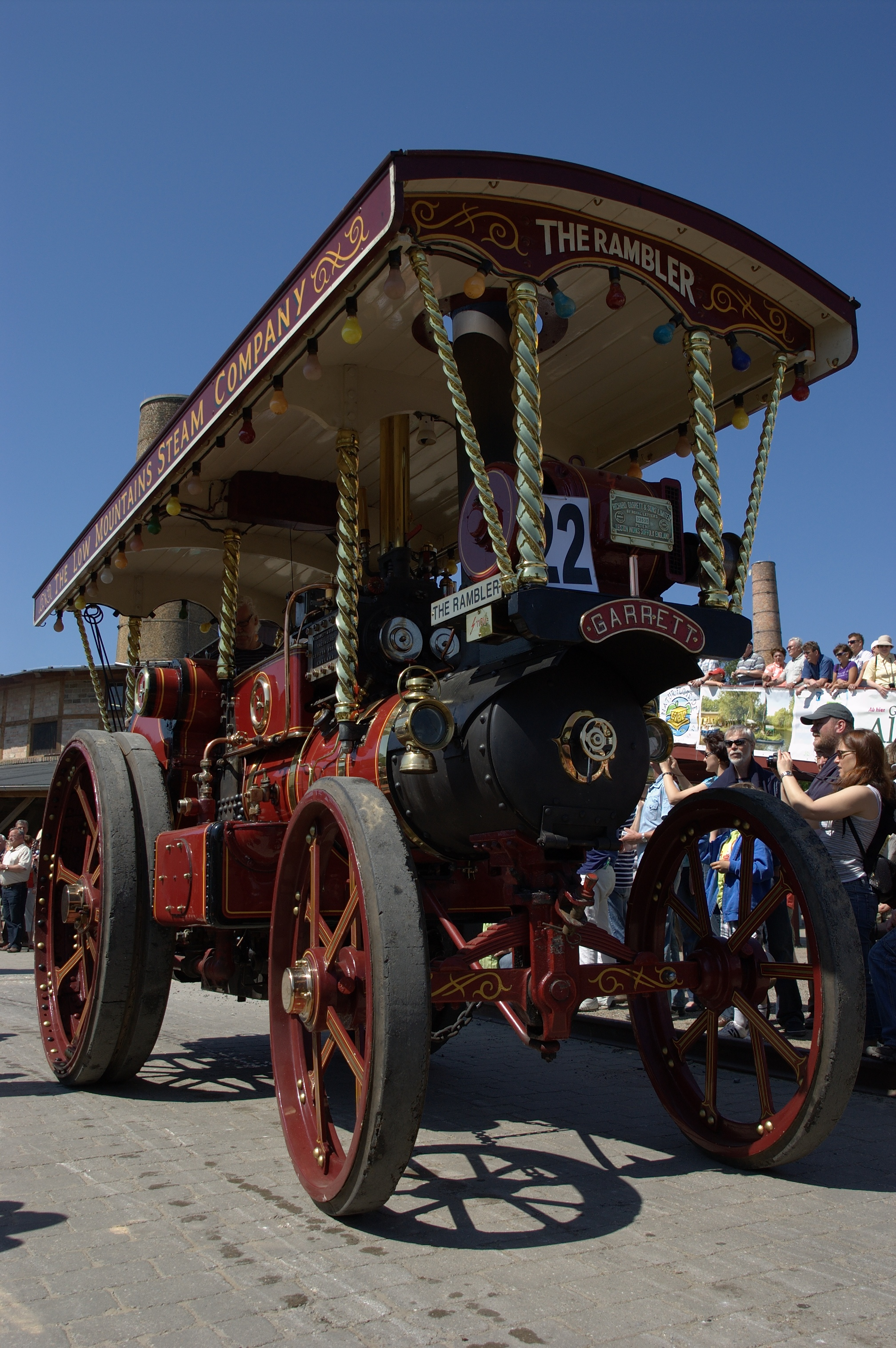 Steam engine tractor "The Rambler", made by Richard Garrett & Sons Limited, Leiston works, Suffolk, England. Serial number 33505. Seen at the 12. Märkisches Dampfspektakel, Ziegeleipark Mildenberg, Brandenburg, Germany.